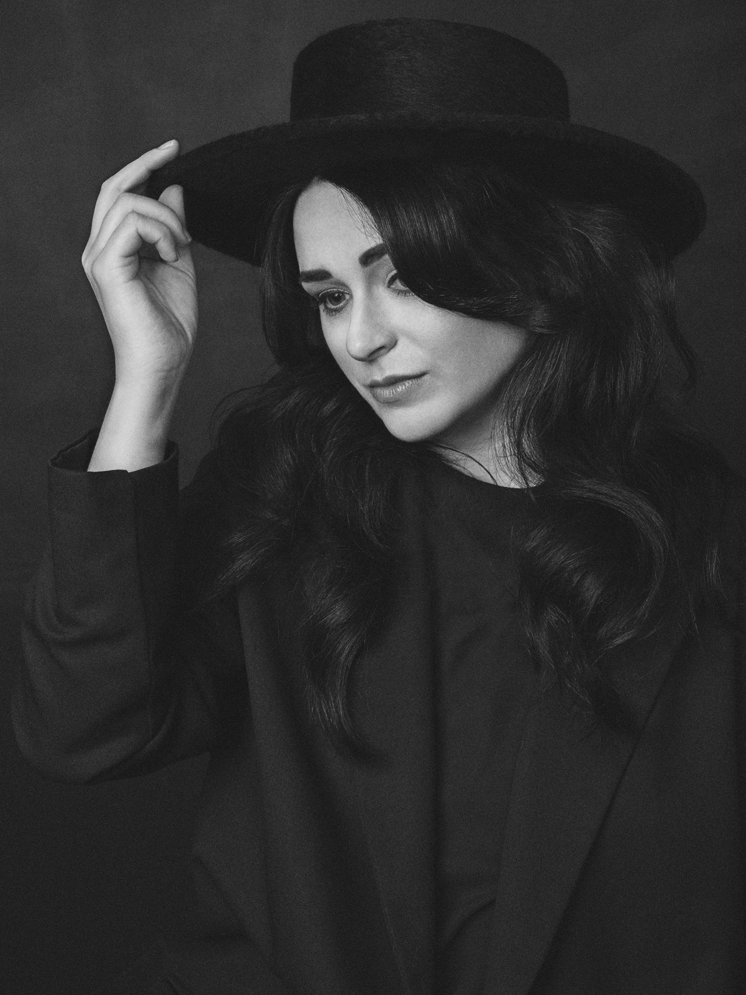 A headshot of Lauren Bowker holding her hat.